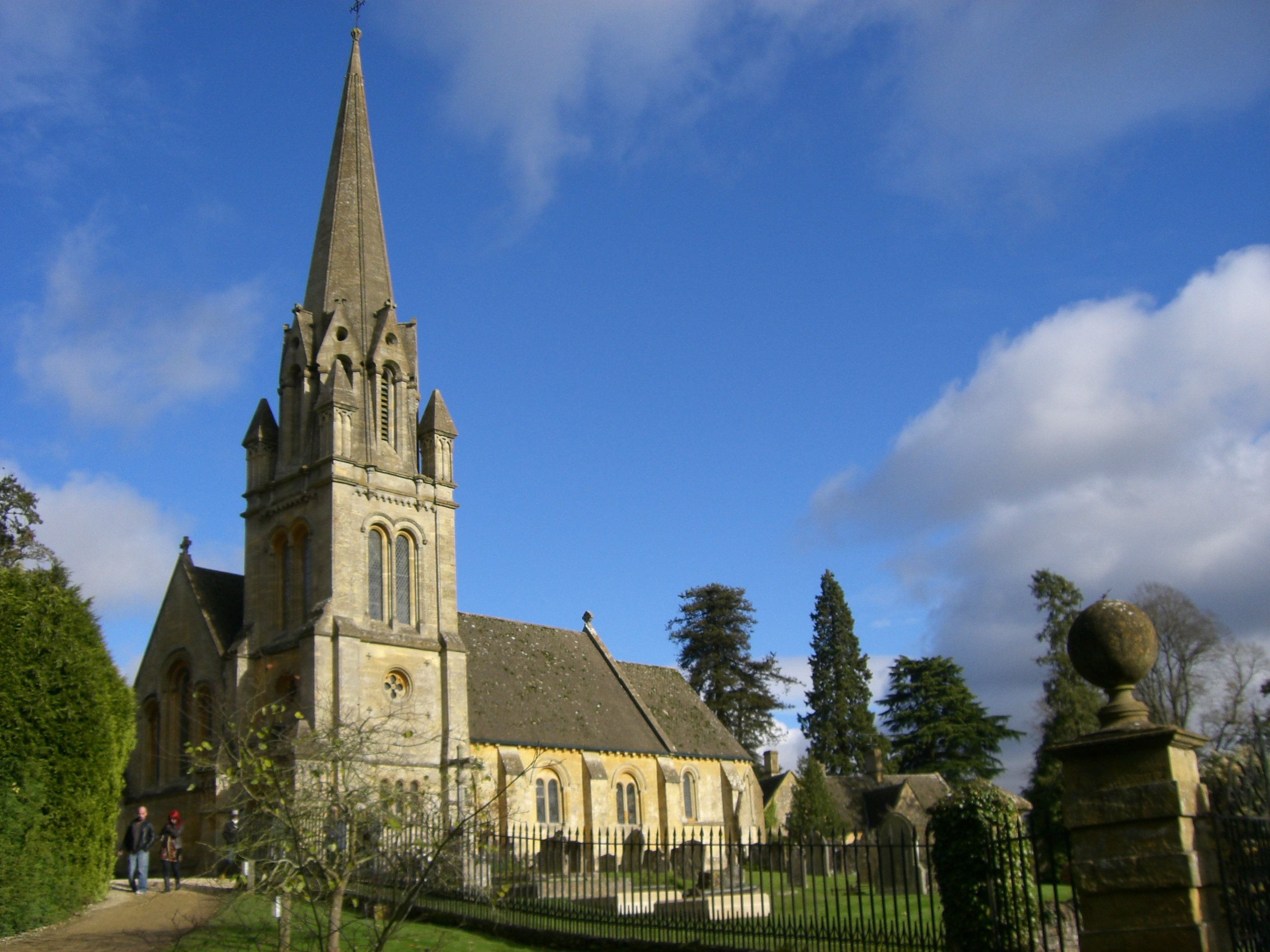 Photograph of St Mary's Church, Batsford.jpg